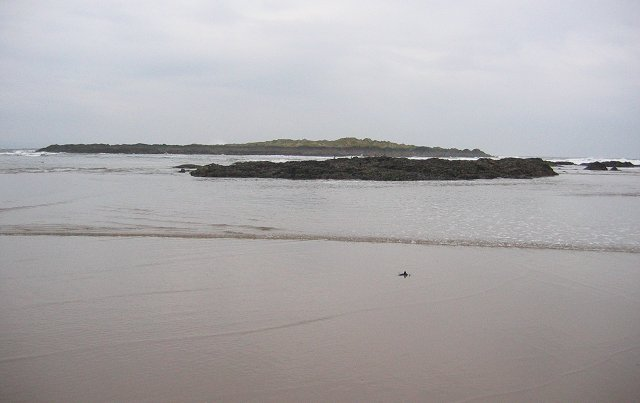 Eyebroughy. Small island, connected to the West Links at low water. Taken just before the tide and surf, advancing from both sides forced me back out of the square. My feet remained dry on the firm sandy beach. Wild and wonderful.